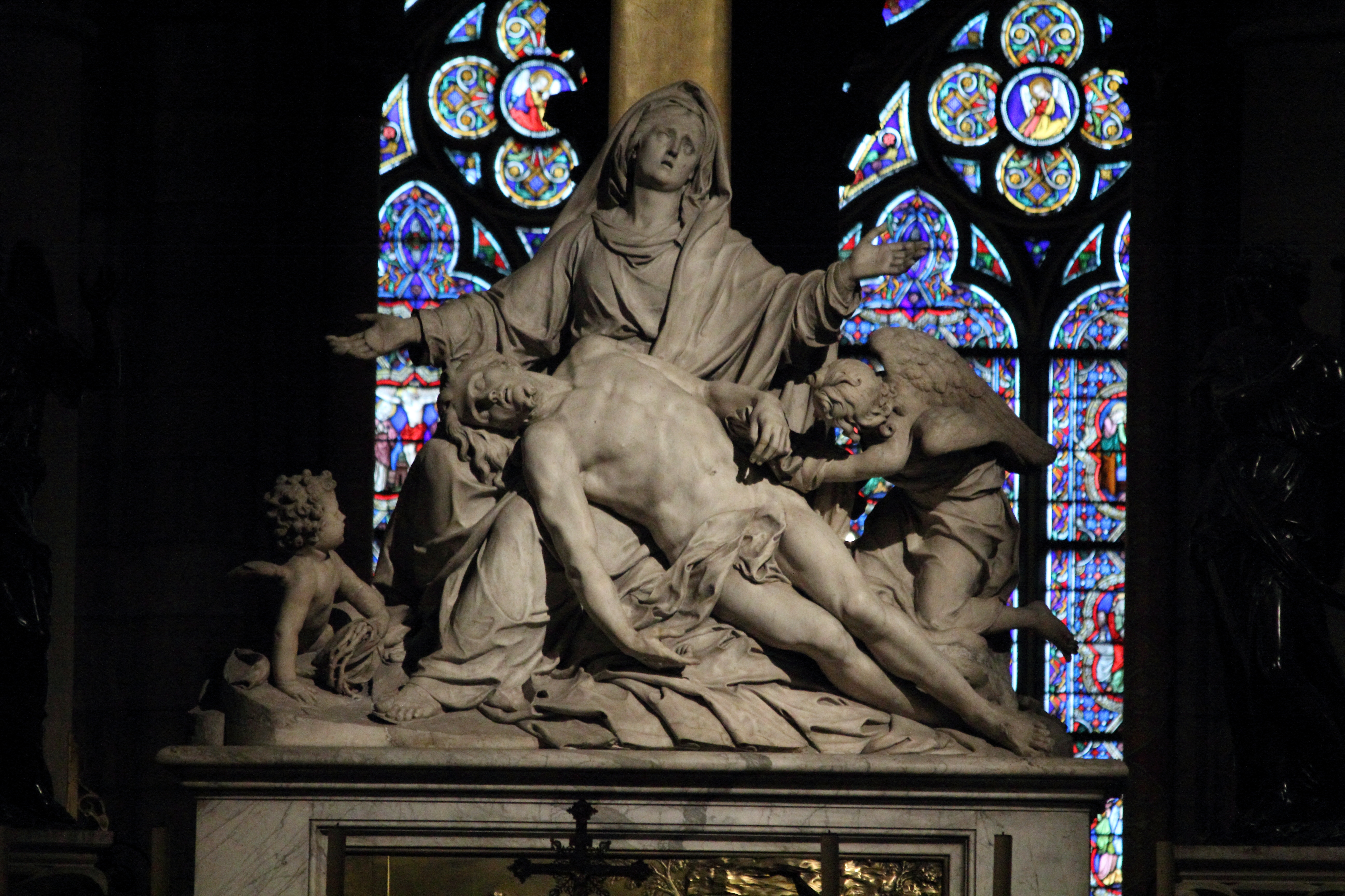 Nicolas Coustou (French, 1658-1733): Pietà, 1723, altar of Notre-Dame de Paris cathedral, Paris, France.